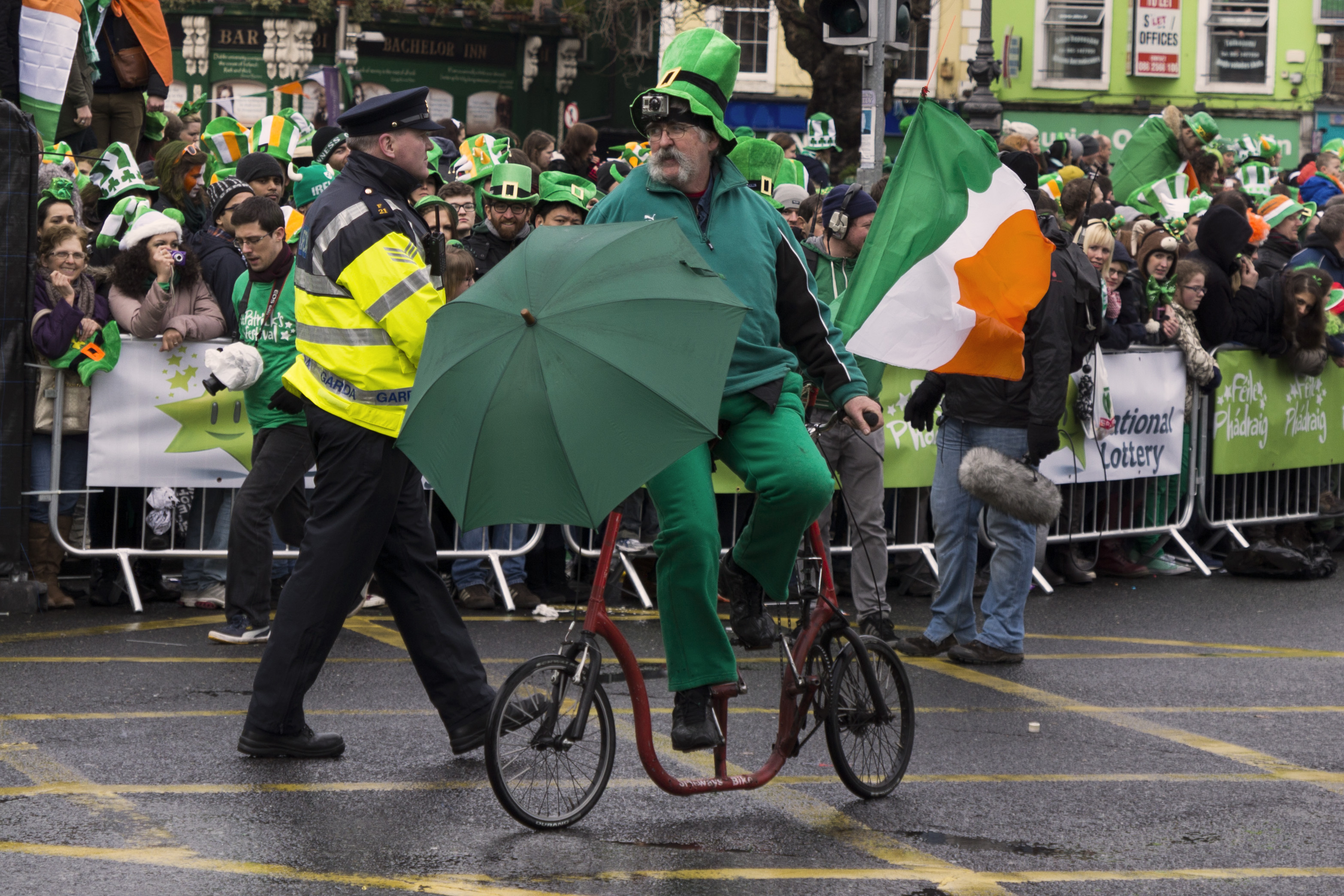 St Patrick's Parade 2013 - Dublin